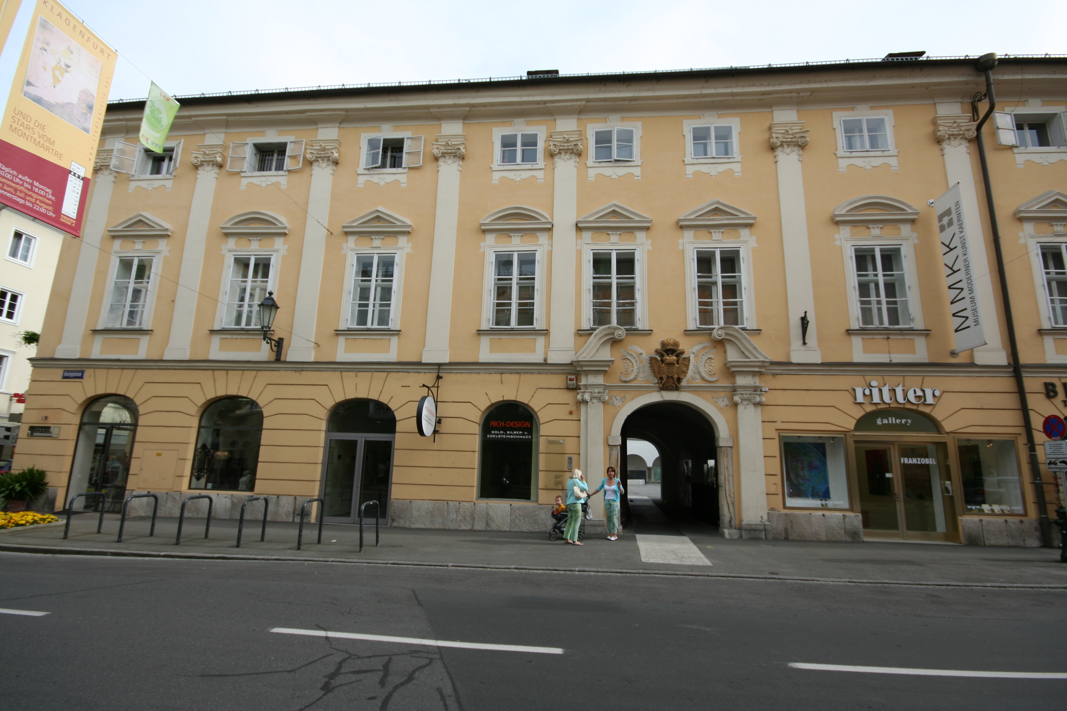 Museum of modern art in Carinthia Locality: Burggasse Community:Klagenfurt